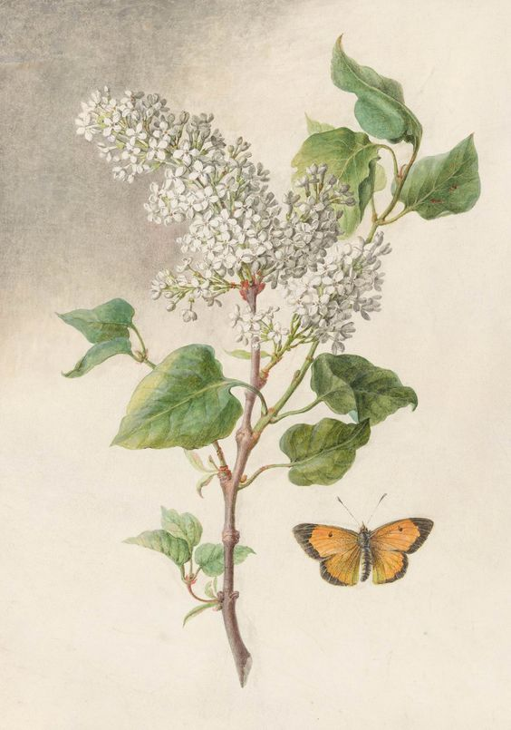 Syringa vulgaris (Lilac) - Watercolor over pencil on vellum.